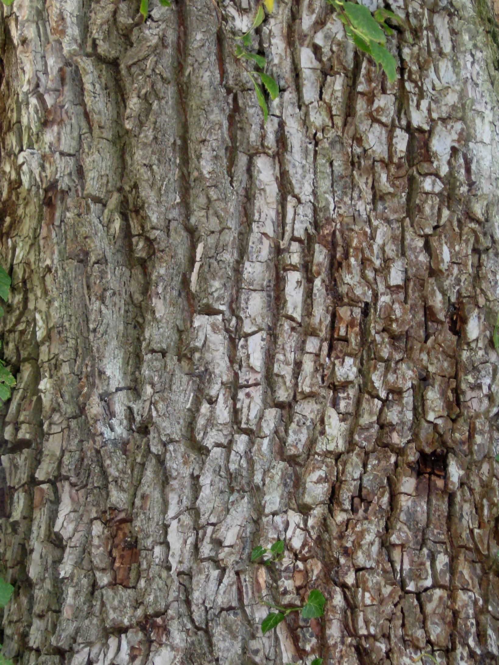 Bark of ancient field elm Ulmus minor surviving at Chain Hill, Stapleford, Wiltshire, England in 2015.